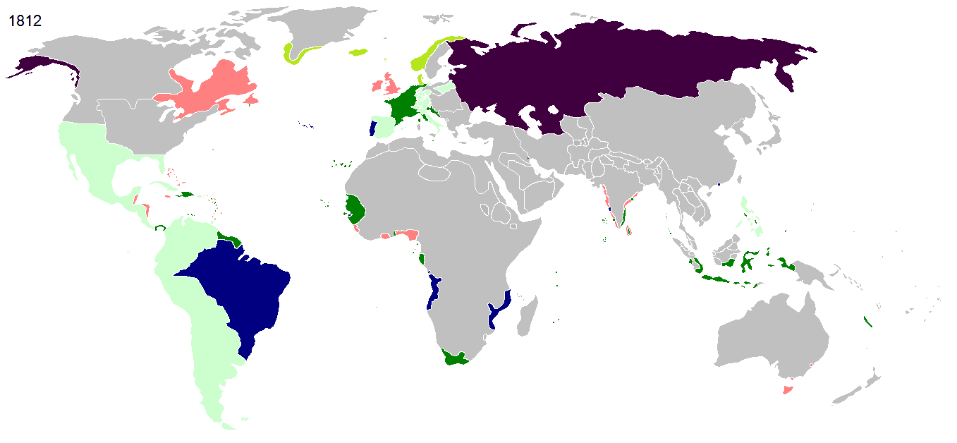 Colonial empires in 1812